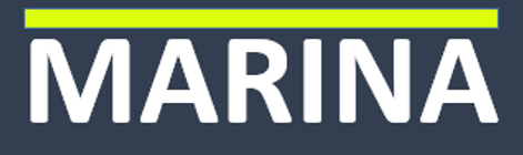 Uniform symbol of Mexican search and rescue